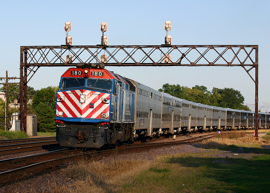 West Chicago, my fav photo location